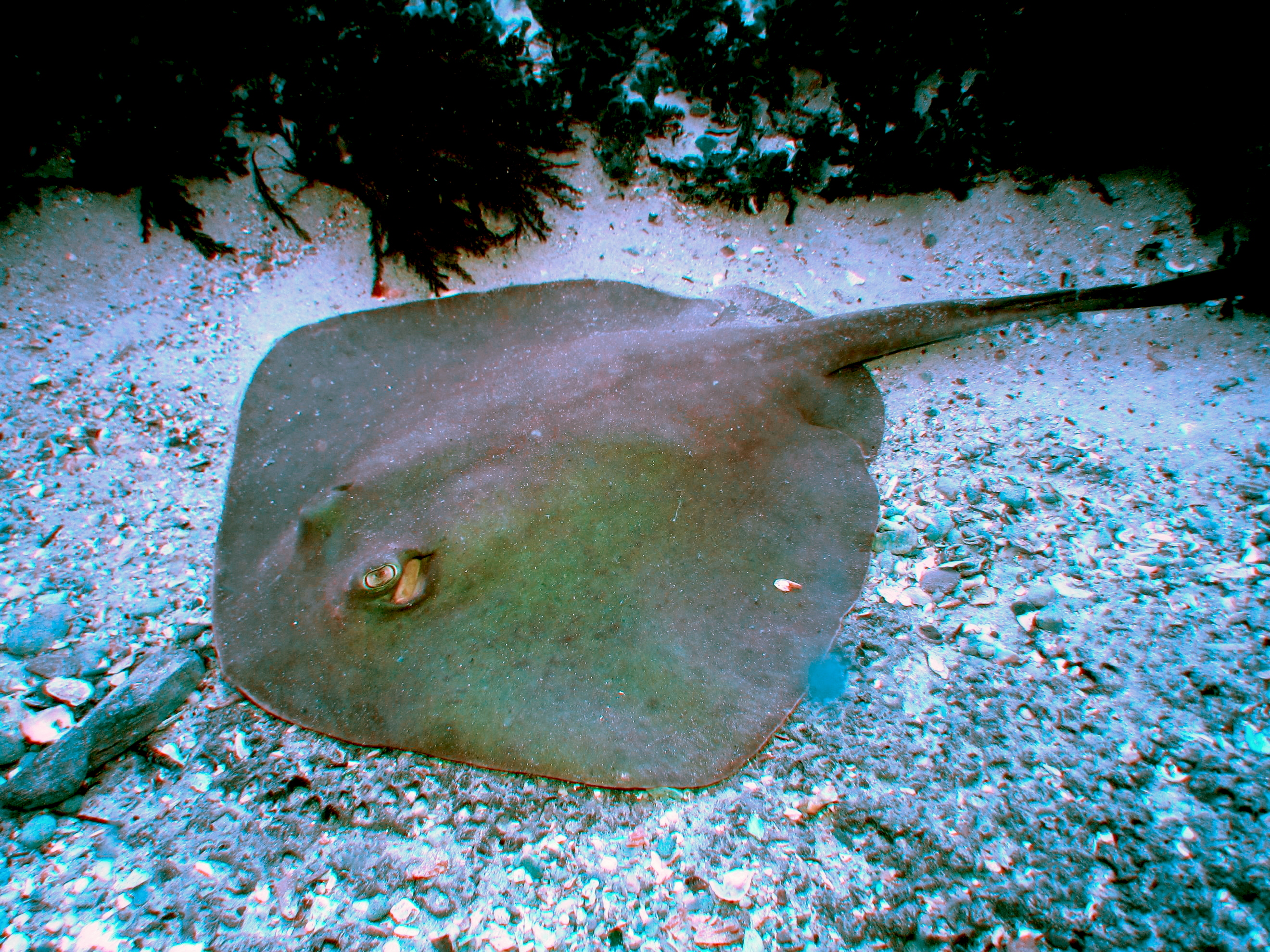 Eastern shovelnose stingaree (Trygonoptera imitata)